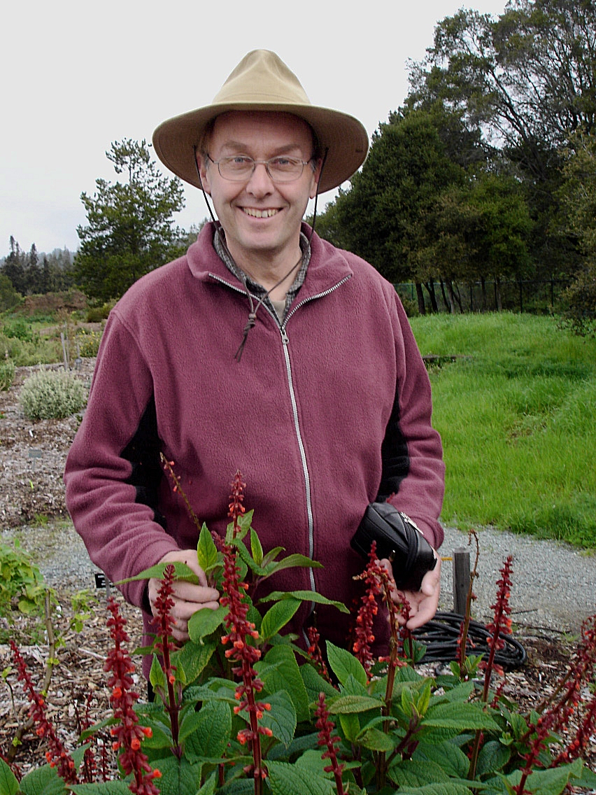 Ernie Wasson with Salvia confertiflora, 2005